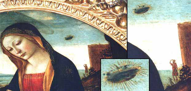 This is the painting titled "The Madonna with Saint Giovannino" a painting from around the beginning of 16th century most likely painted by Domenico Ghirlandaio. The painting depicts Mary mother of Jesus looking down while in the background you can see a clear picture of what appears to be a UFO flying above while a man on a ledge blocks the sun with his hand and stares at the strange flying object in the sky.